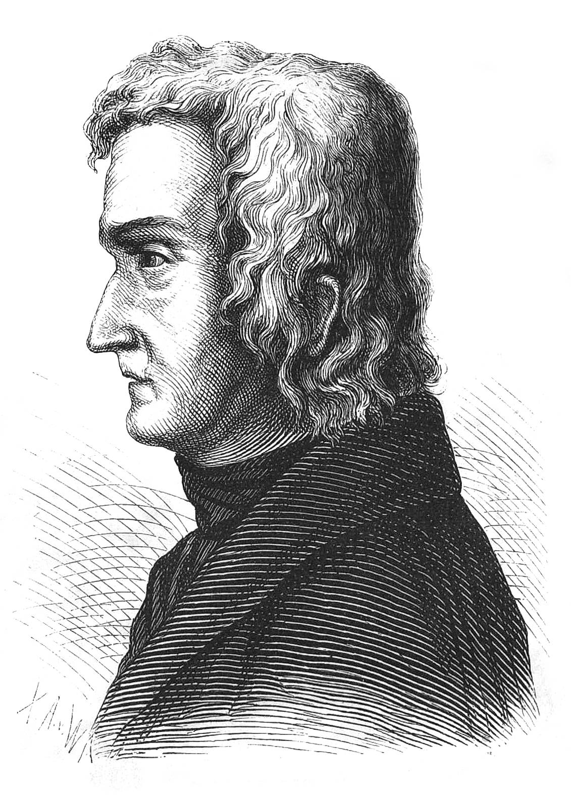 no caption